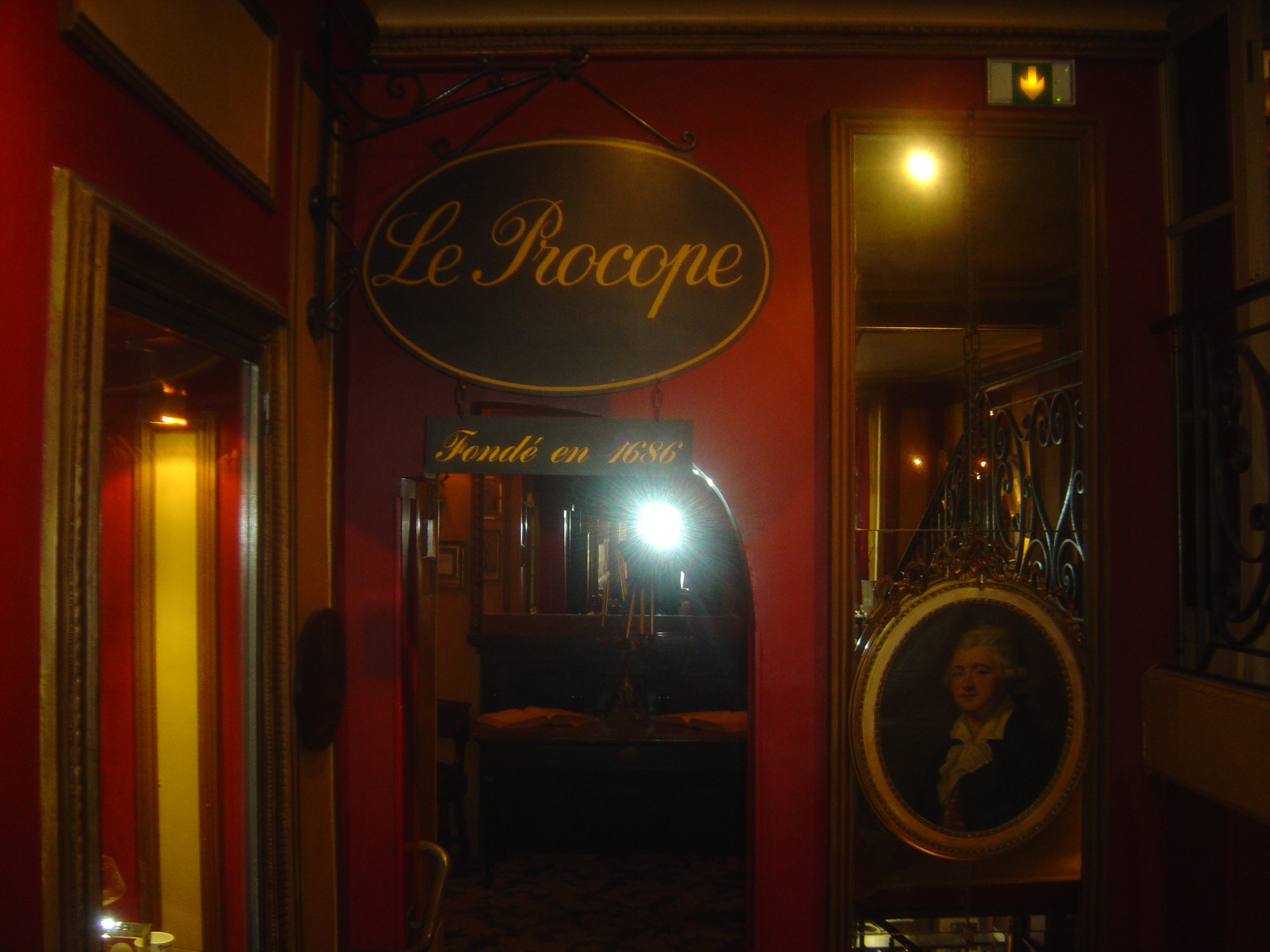 Interior of the Cafe Le Procope, Paris - 2011